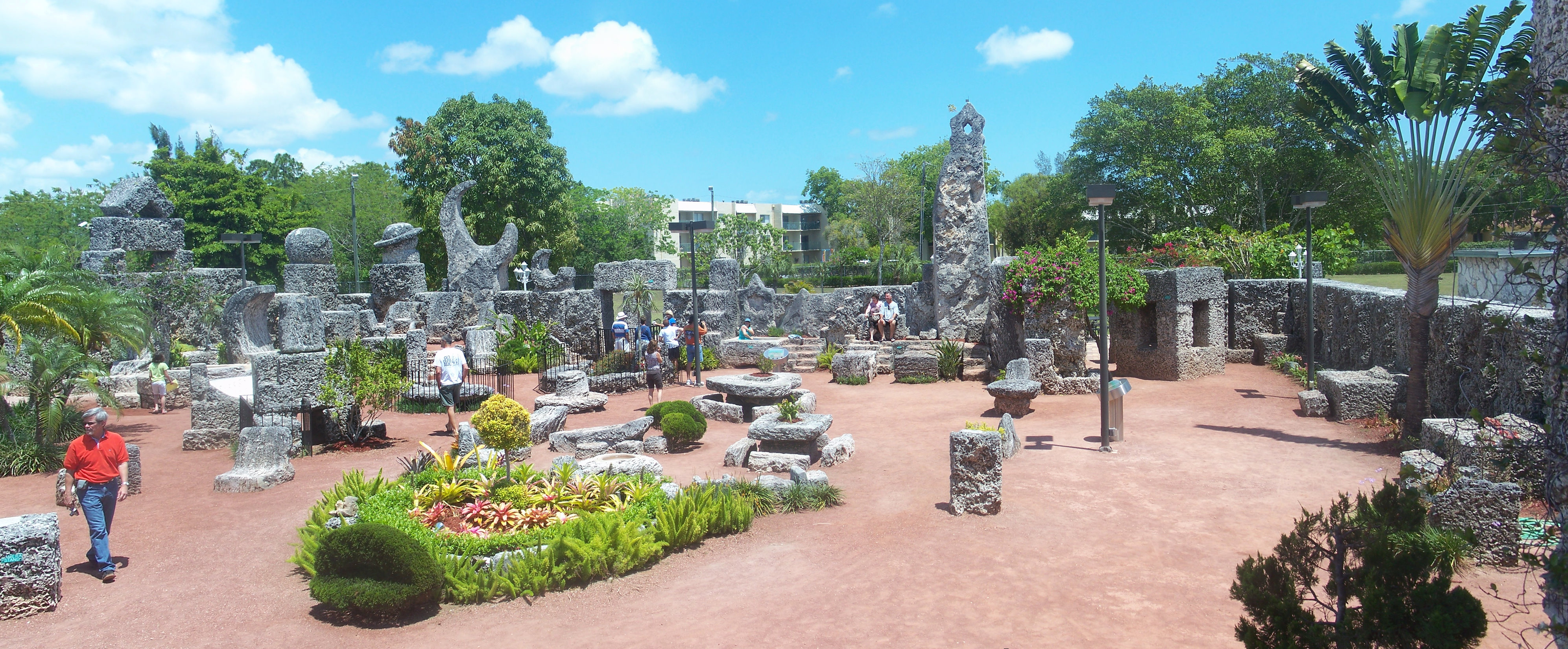 Homestead, Florida: Coral Castle